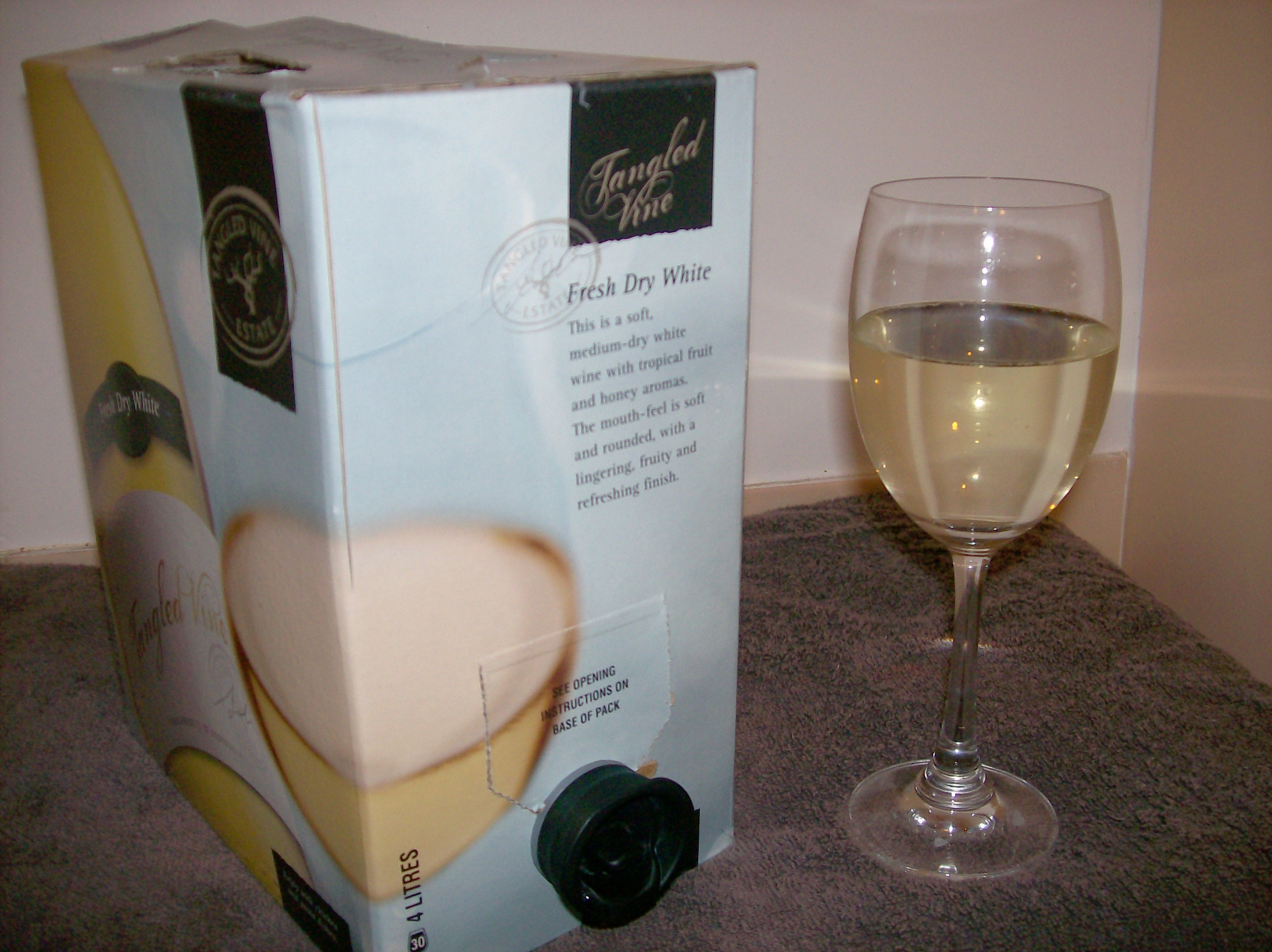 A cheap Australian wine cask, 10% ABV, costing around $A 9.00 (January 2008)